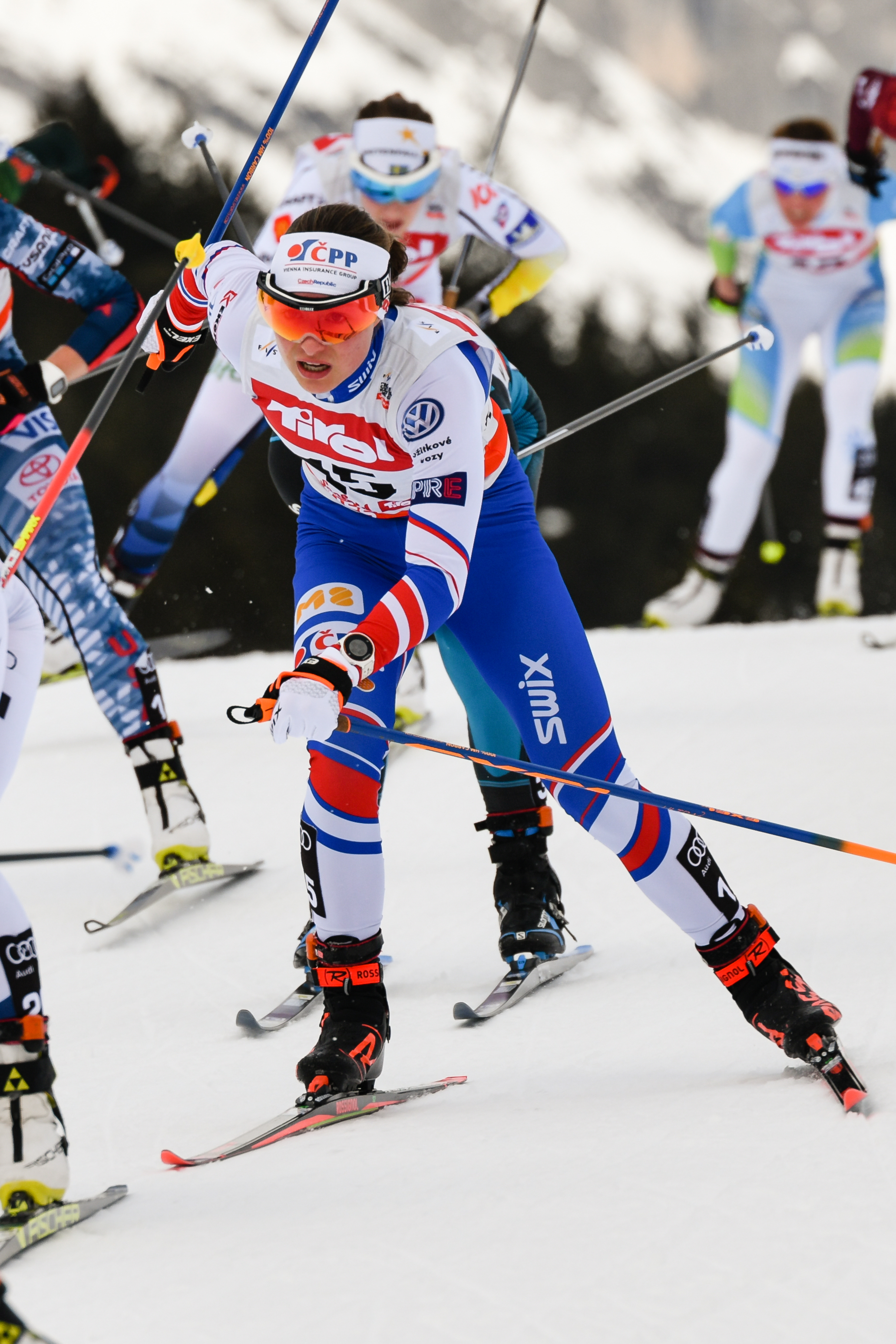 Seefeld-Triple 2018, third day January 28th. Picture shows NOVAKOVA Petra (CZE).